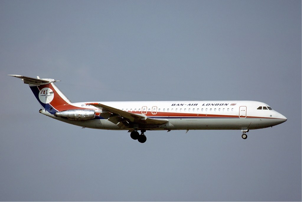 A BAC-111 of Dan-Air at Zurich Airport